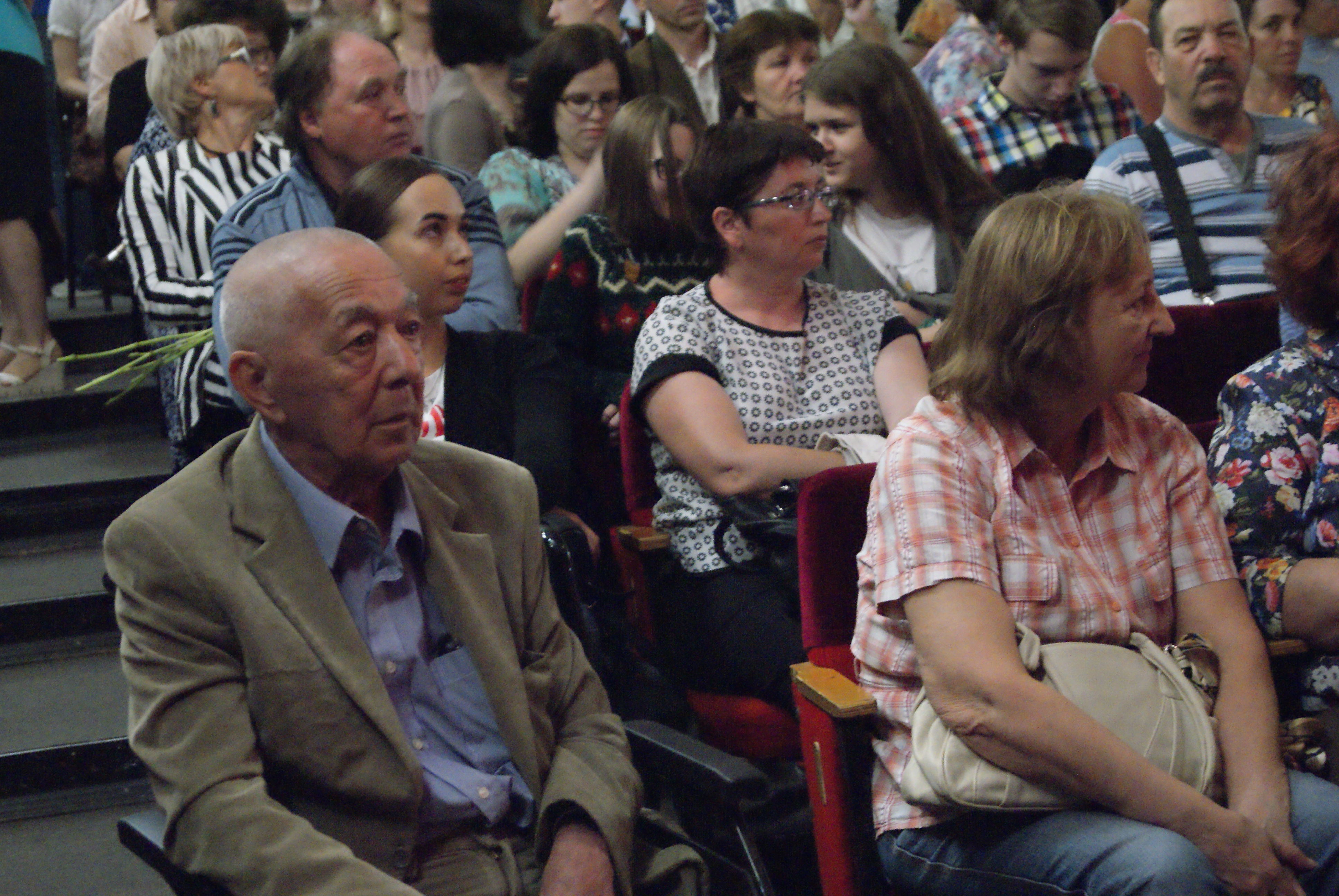 Tya-Sen Y.A. on the Tolyatti theatre festival "Premiere of one rehearsal" in the theatre "Stagecoach". June 2017. Togliatti, Russia.